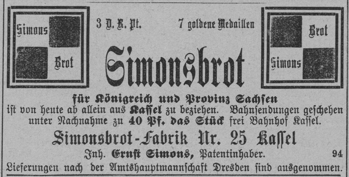 Scan from the Dresdner Journal, 1906